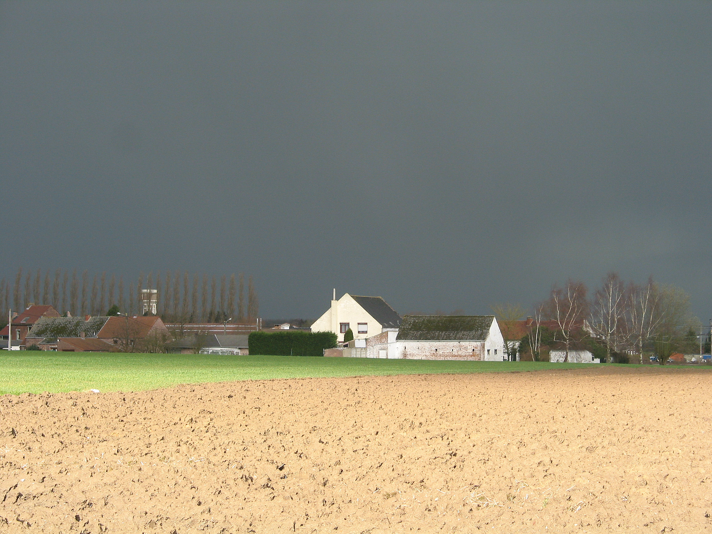 Neufvilles (Belgium), neighbourhood of « La Gage ».